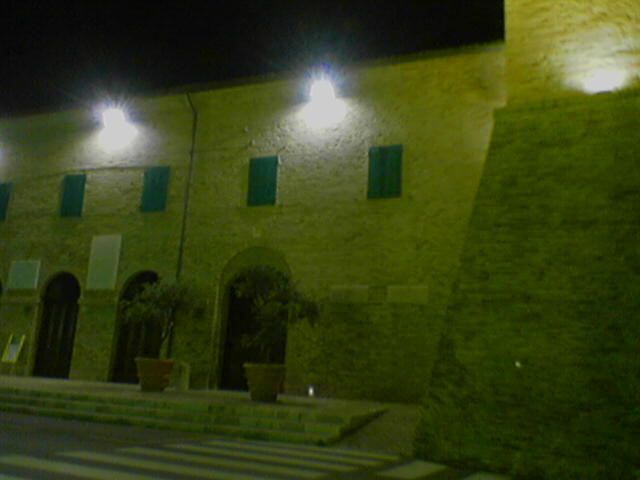 CastelloofPortRecanati, Bynight